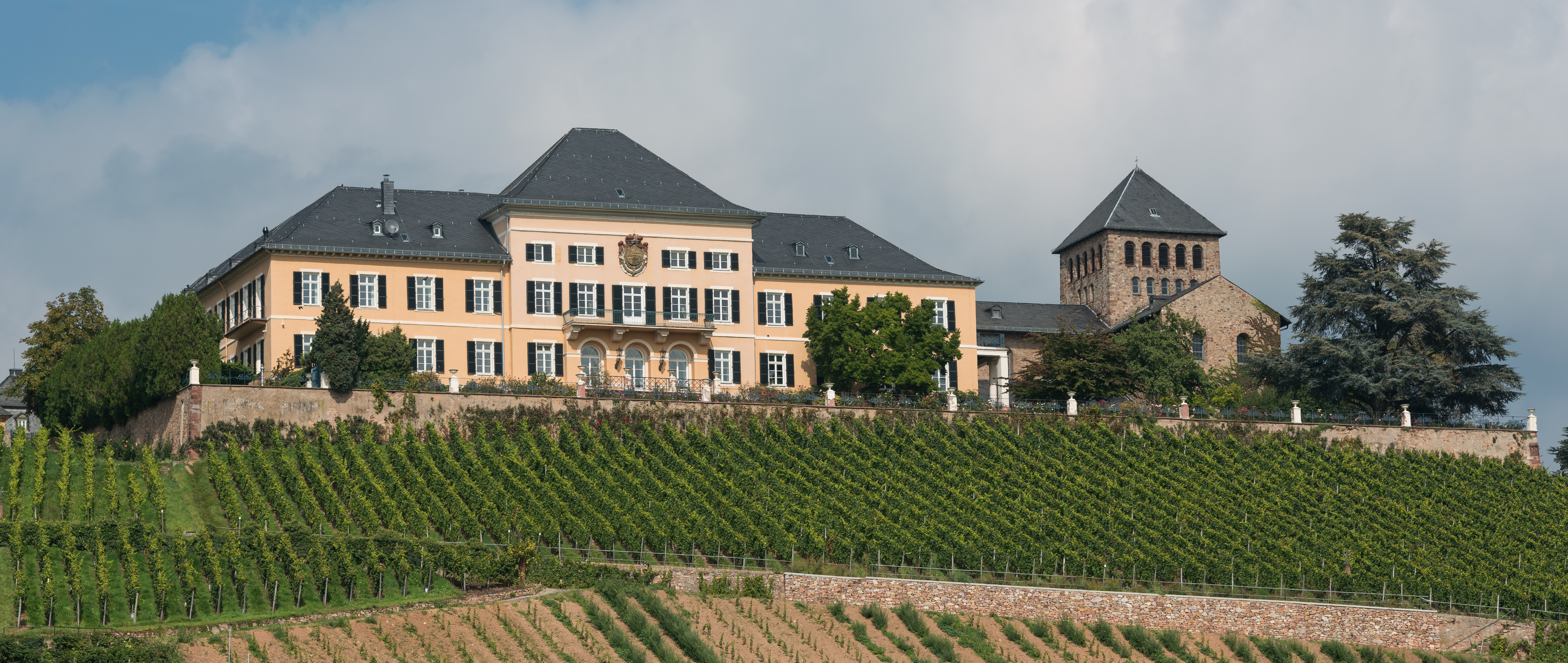 Schloss Johannisberg as seen from south